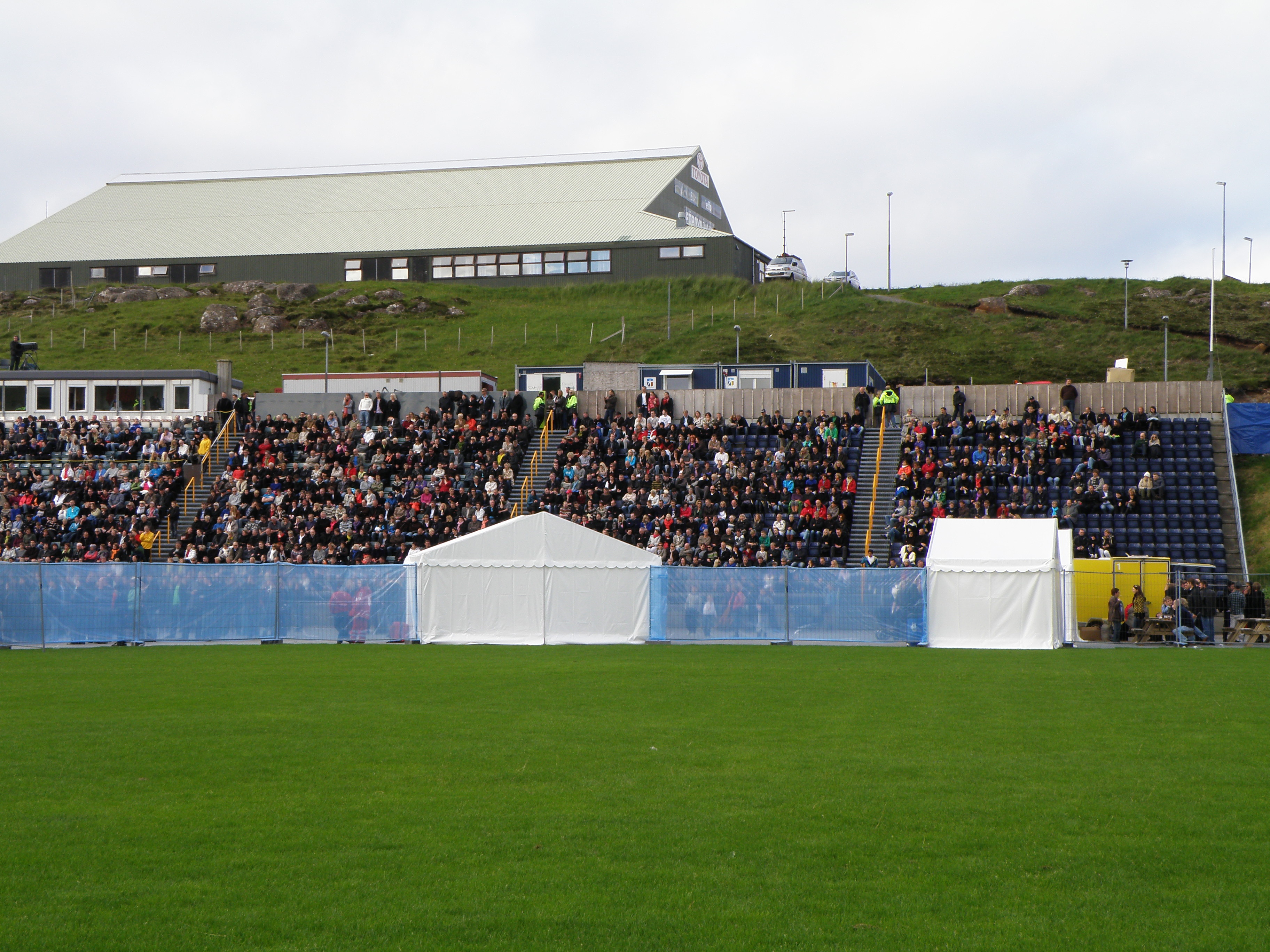 The sports hall on Nabb (Høllin á Nabb) in Tórshavn is the oldest or one of the oldest sports hall in the Faroe Islands, it was built in 1970. Here it is seen from Tórsvøllur, which is one of two national football stadiums in the Faroe Islands, the other one is in Toftir. Tórsvøllur was used for an Elton John consert, when I took this photo on 29 June 2010. Føroyskt: Ítróttarhøllin á Nabb ella á Hálsi, sum hon eisini verður rópt, varð bygd í 1970 og er ein av teimum elstu um ikki tann elsta ítróttarhøllin í Føroyum. Ein partur av Tórsvølli sæst eisini á myndini. Myndin varð tikin til Elton John konsertina sum var 29. juni 2010 á Tórsvølli. Tórsvøllur er annar av tveimum tjóðar fótbóltsvøllum hjá Føroyum, har føroysku fótbólts landsliðini spæla teirra heimadystir.